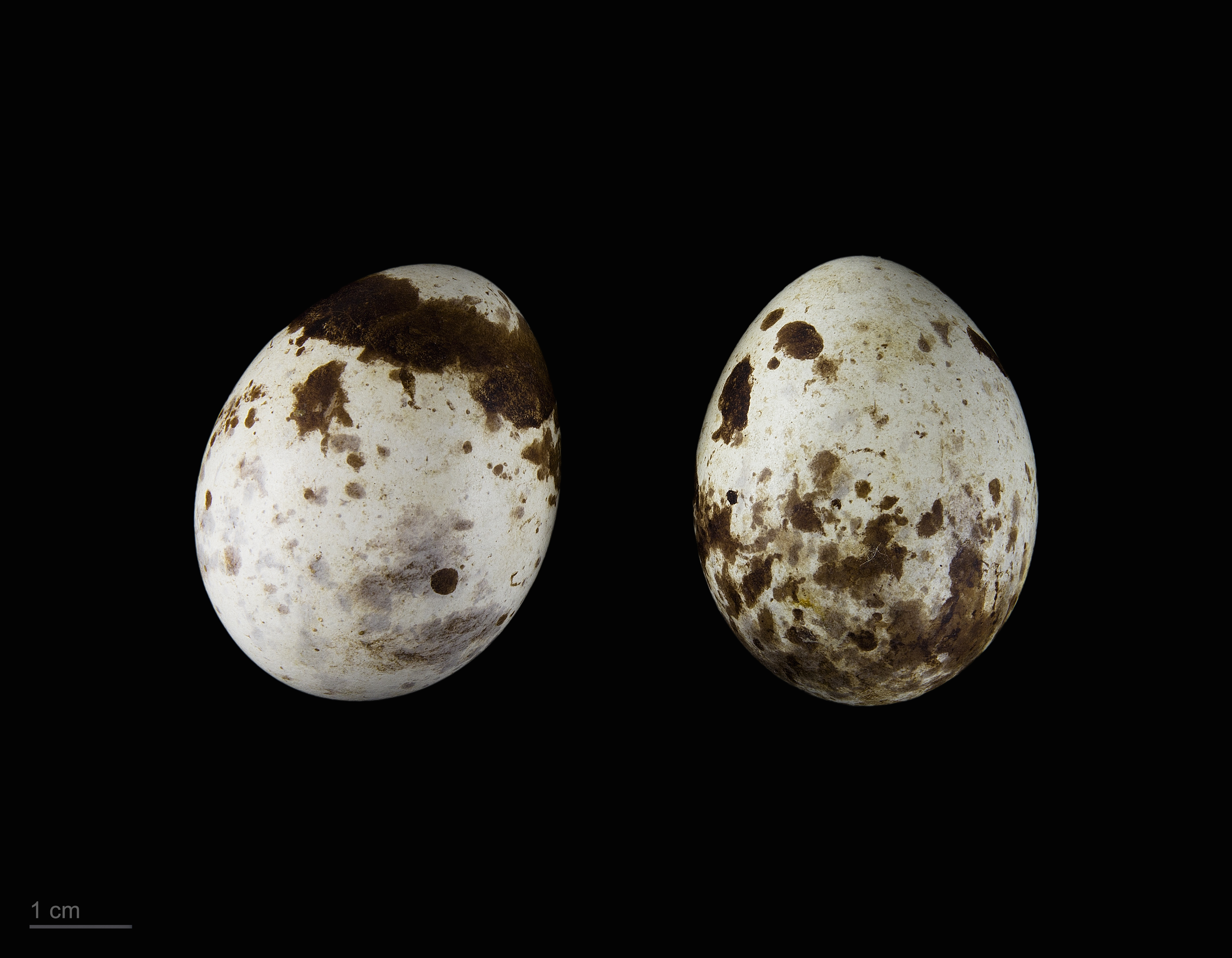 Eggs of Eurasian sparrowhawk Two specimens of the same spawn ; collection of Jacques Perrin de Brichambaut.